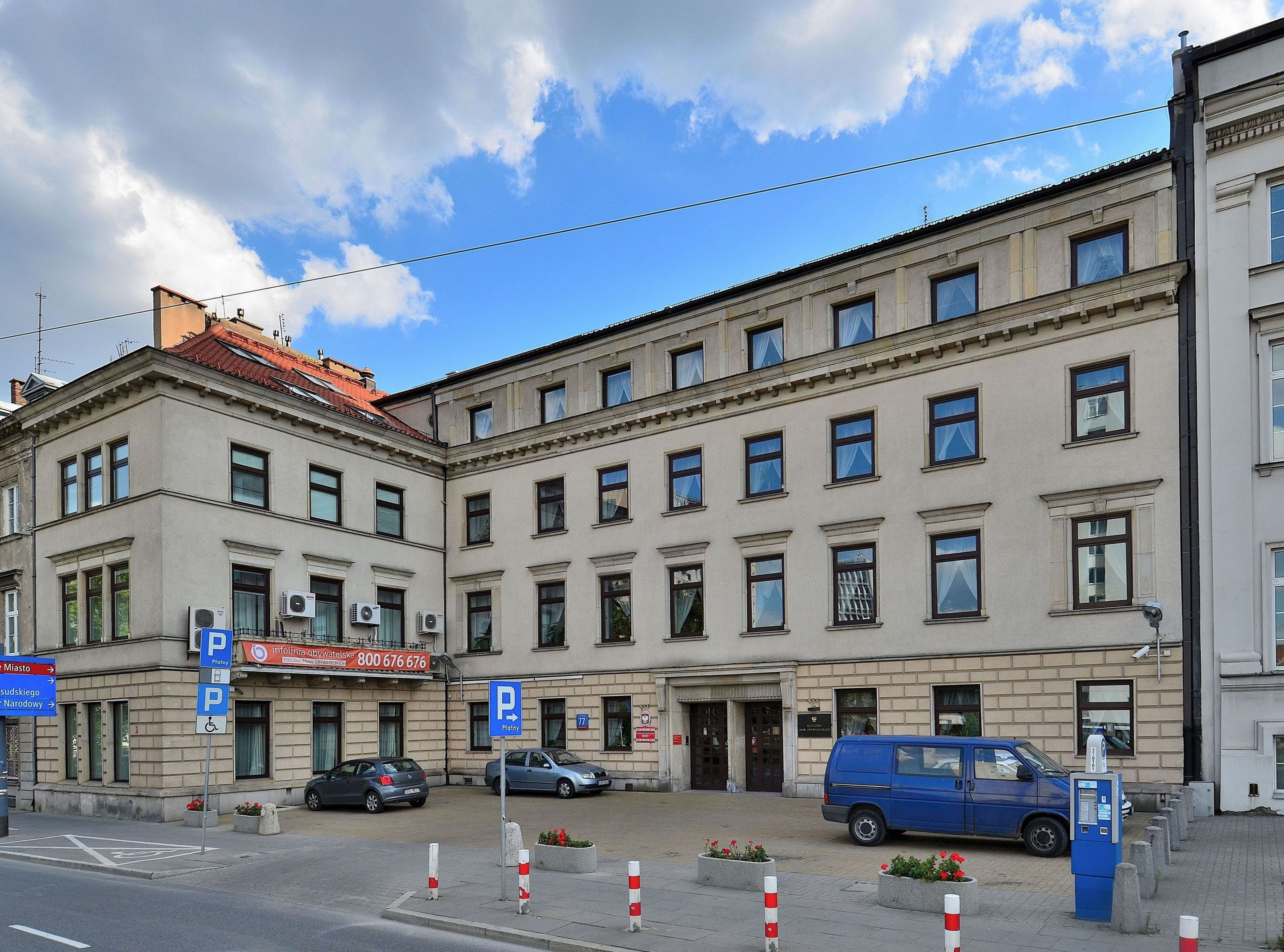 Polish Ombudsman's Office at 77 "Solidarność" Avenue in Warsaw